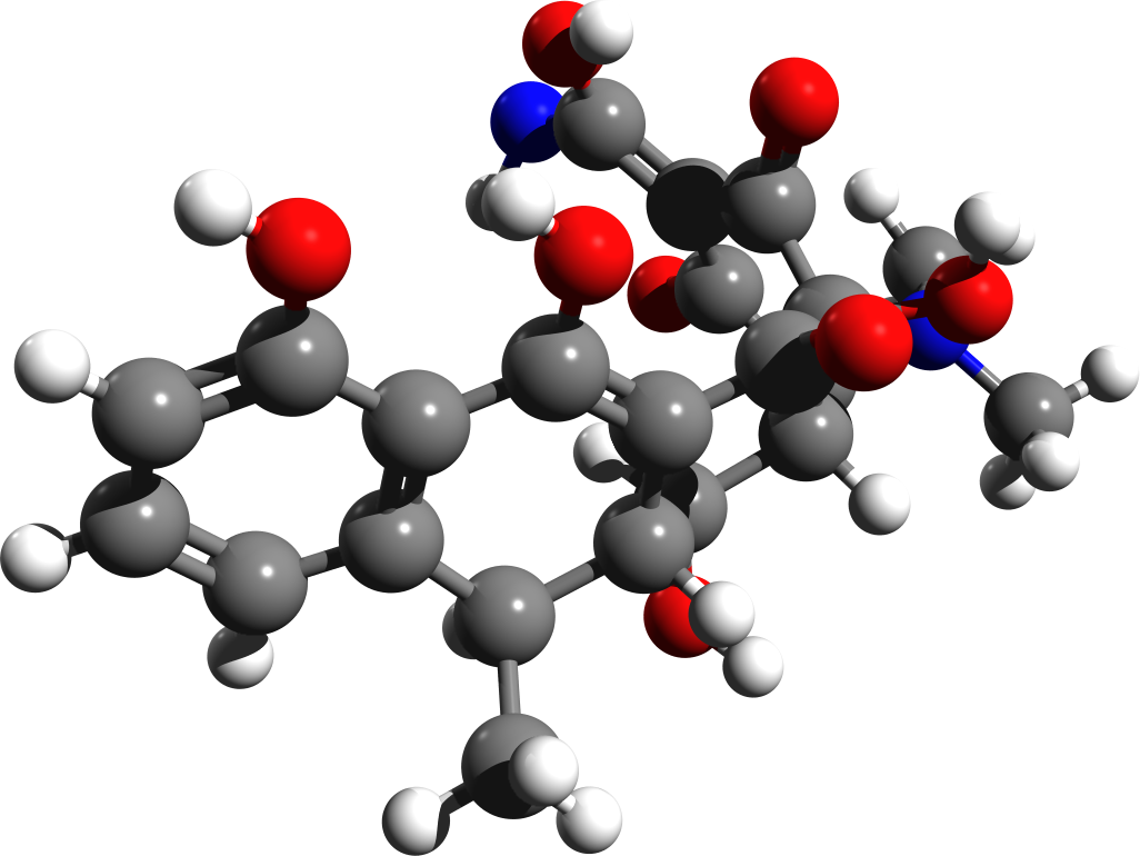 doxycycline structure